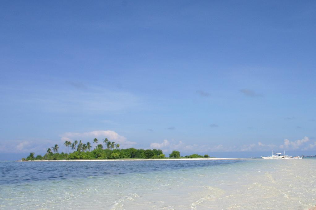 Uninhabited Island / White Sand Islet in Bohol, Philippines